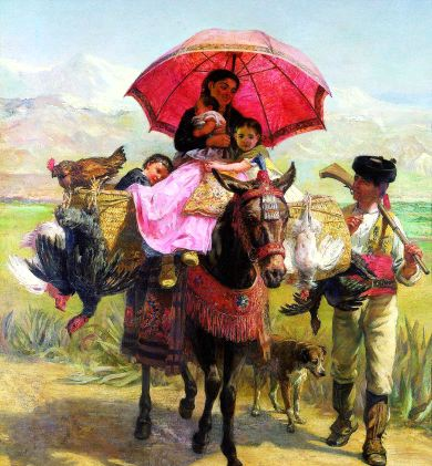 Edwin Longsden Long